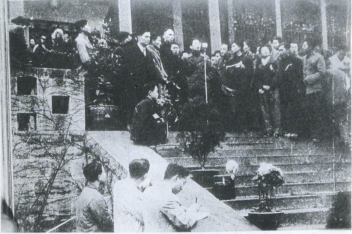 Shapingba Proceed